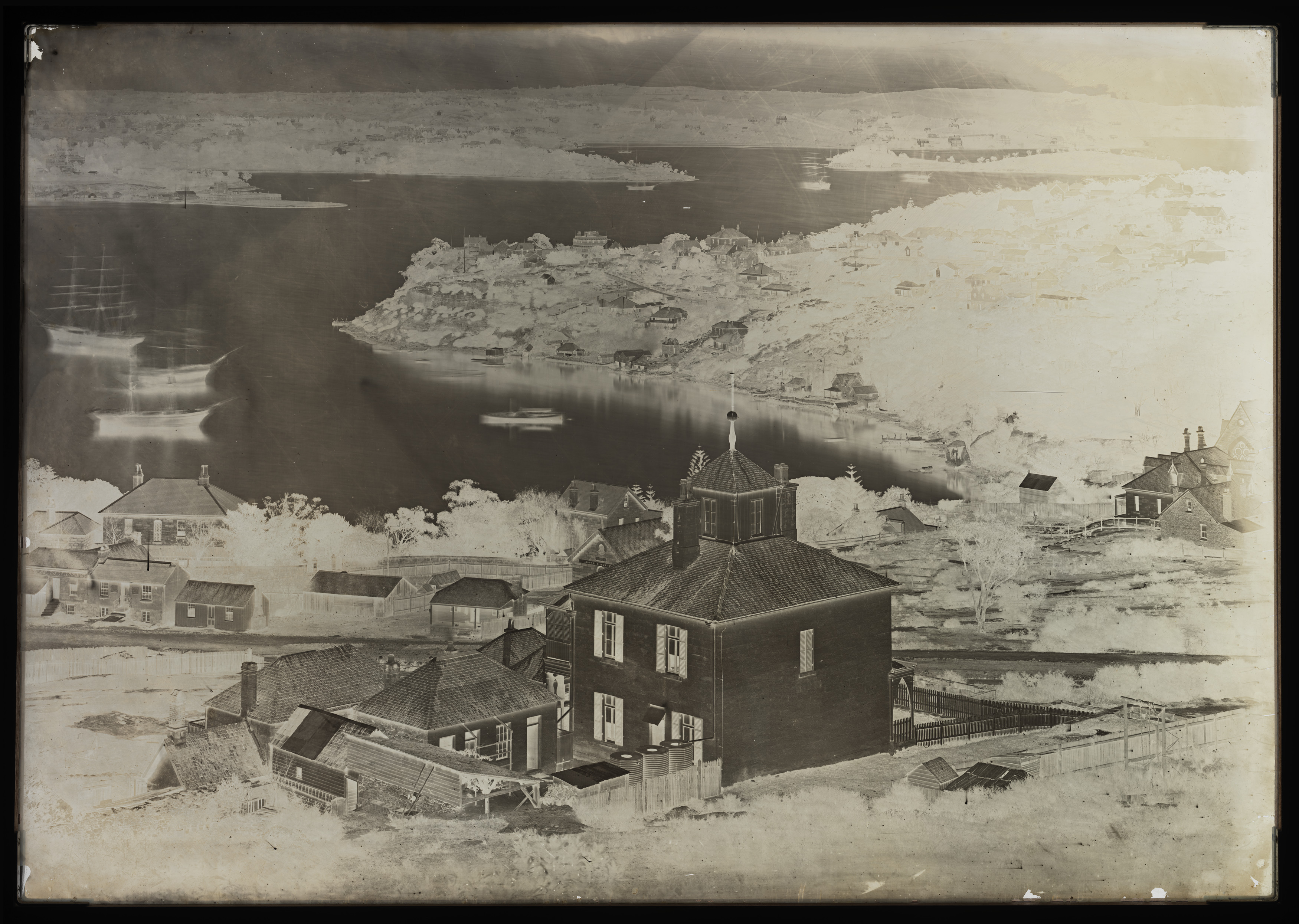 Lavender Bay, Sydney Harbour, 1875, from collodion glass negative, by Charles Bayliss and Bernard Holtermann, from colossal glass plate, State Library of New South Wales, XR 45a